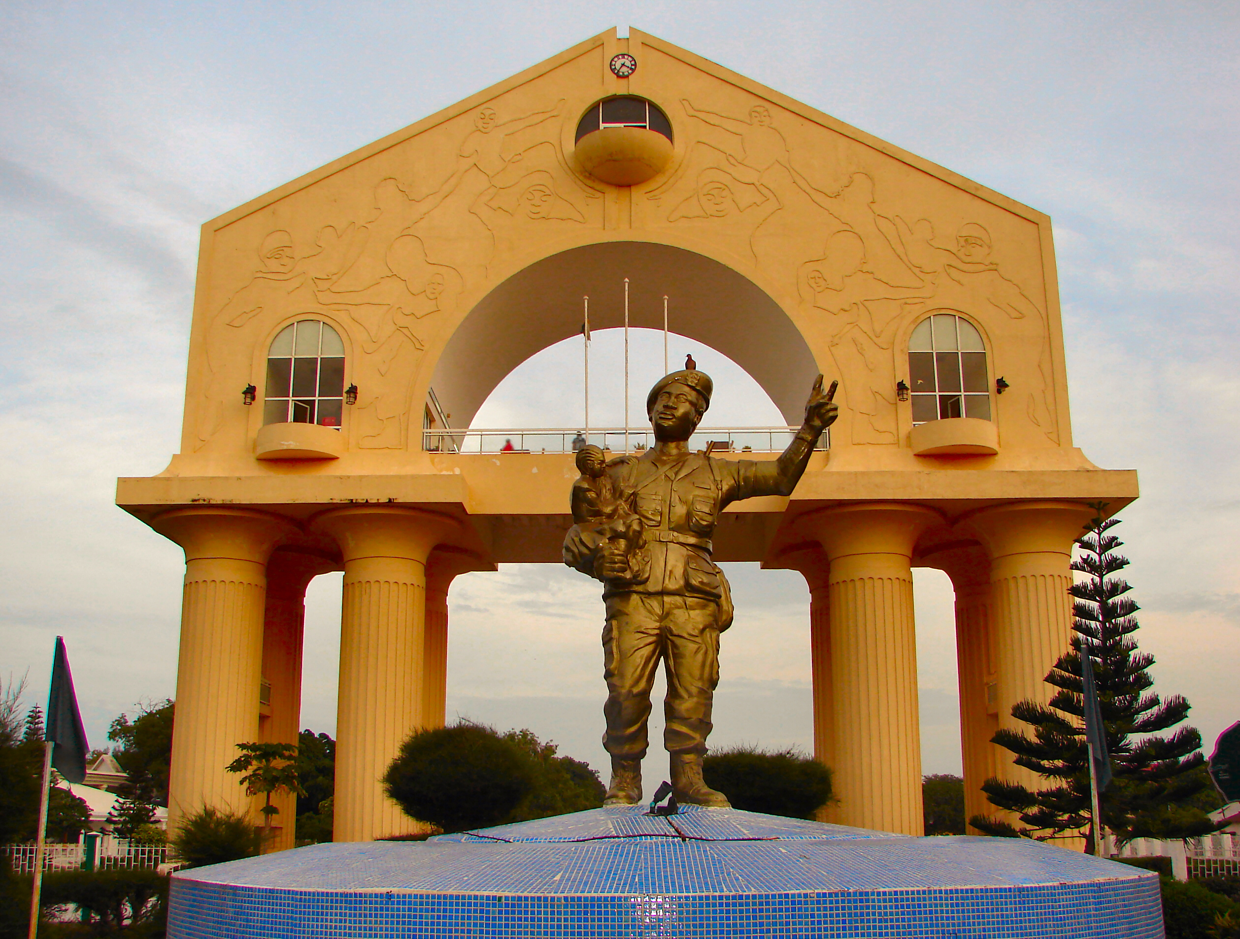 Arch 22, the "arch of triumph", in Banjul, The Gambia, and the status in front of it as you drive into Banjul from the west.